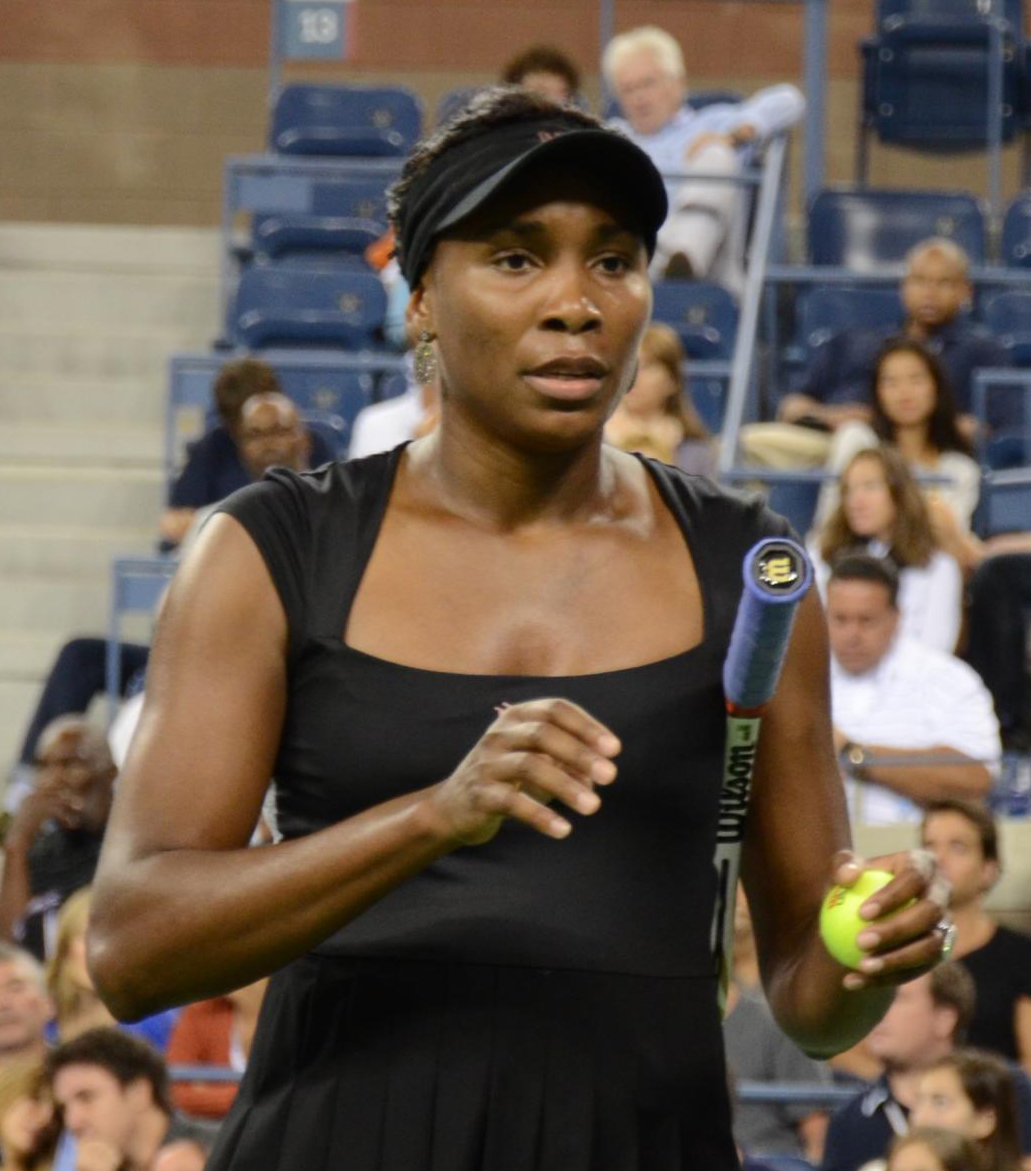 1st round USO